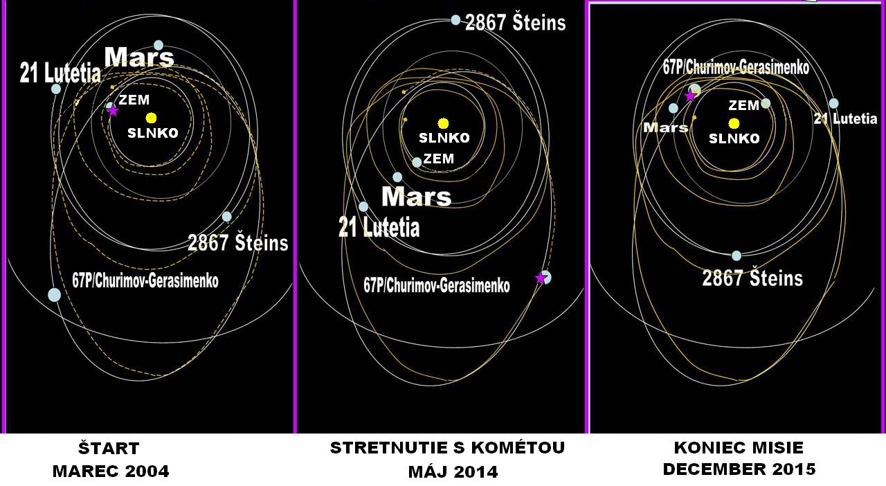 Trajectory of Rosetta Space Probe with slovak headlines